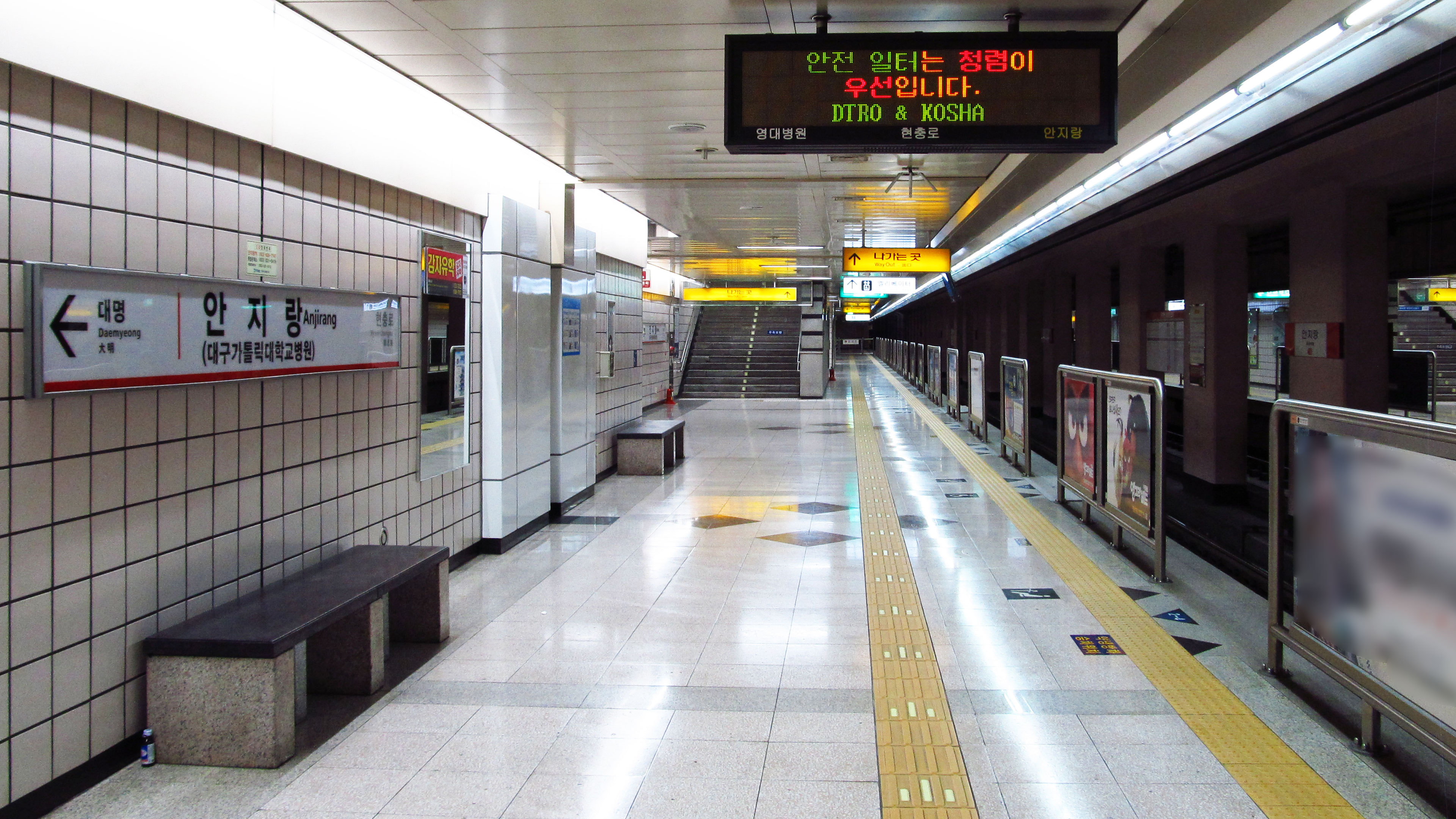 The platform of Anjirang Station on the Daegu Metro Line 1, for Daemyeong, Seolhwa-Myeonggok